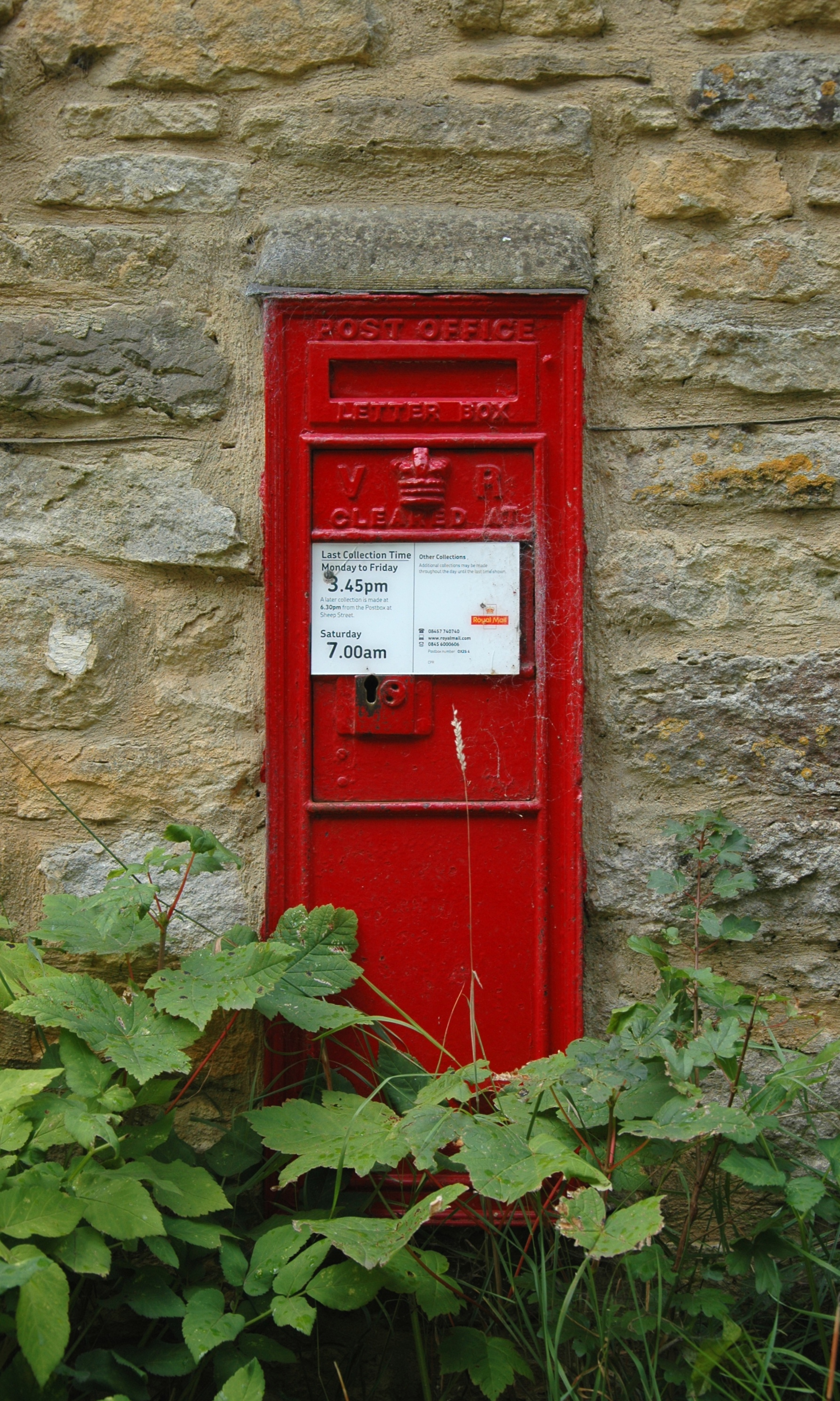 Victorian-era wall-mounted post box at Steeple Barton, Oxfordshire